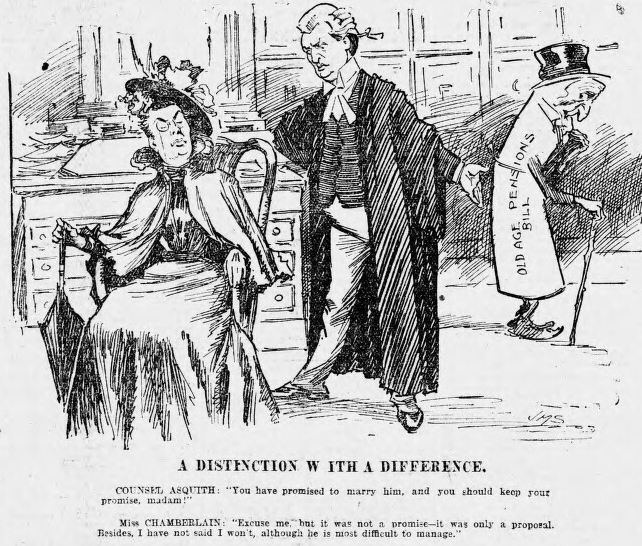 Political cartoon by JM Staniforth. A barrister representing H. H. Asquith (?) grills a cross-dressed Joseph Chamberlain over his promised support for the Old Age Pension Bill.